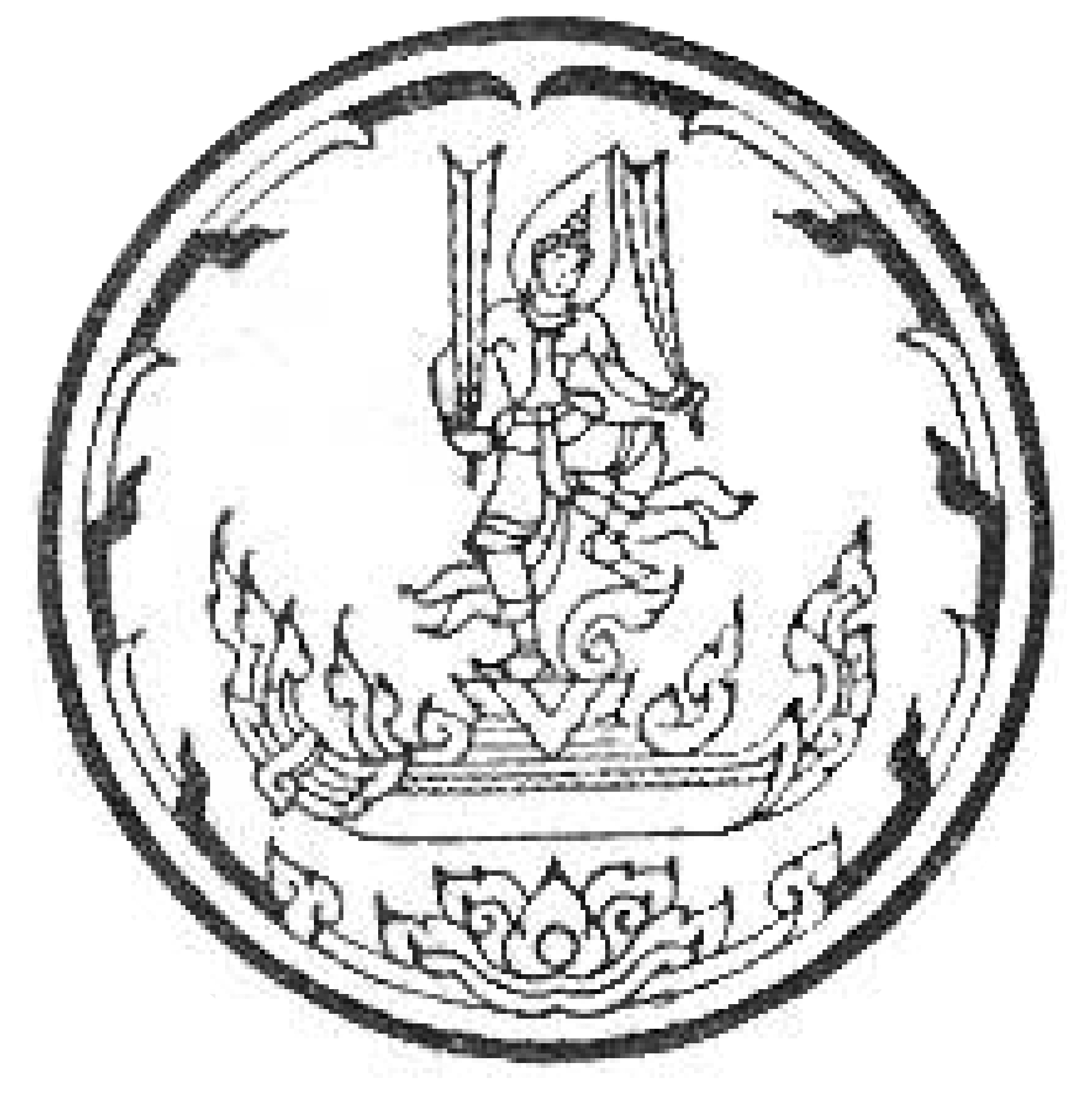 The Seal of Vishvakarma, see detailed information in The Royal Emblems and the Positional Seals by Phraya Anumanratchathon (Yong Sathiankoset).